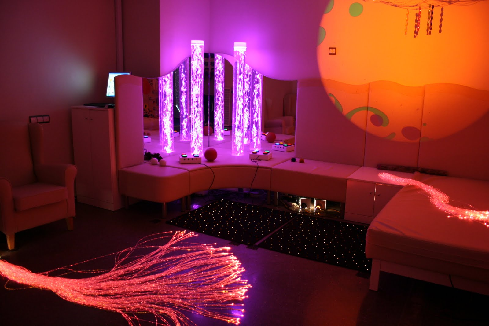 Snoezelen Room